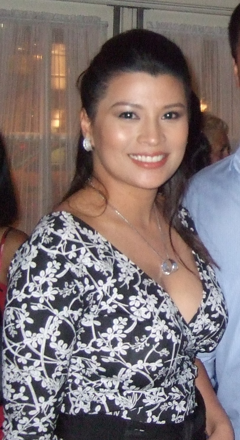 I took this photo and I own the copyright. I hereby release it into the public domain.